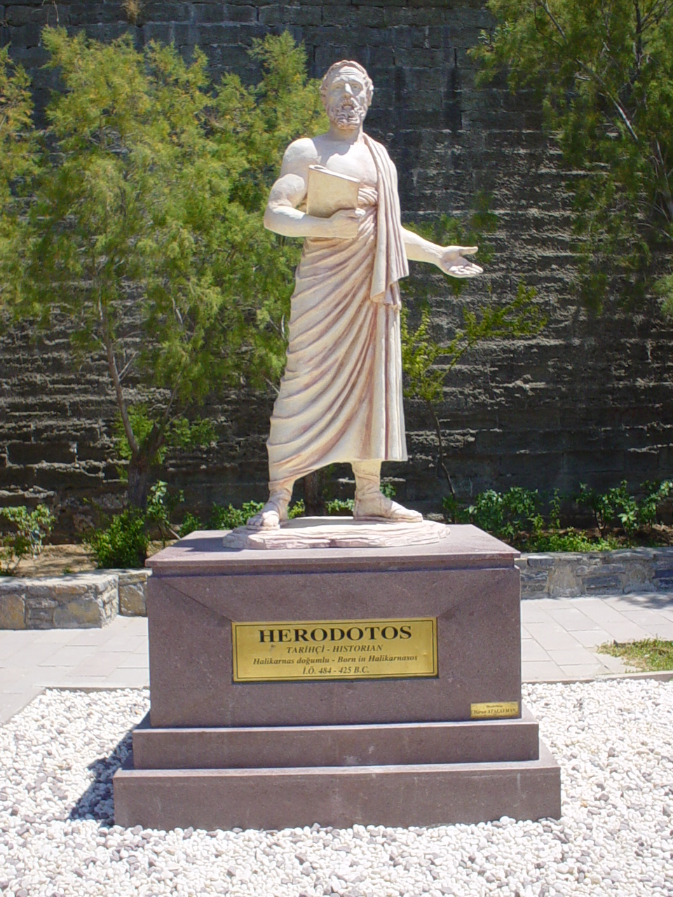 This picture was taken May 22, 2004. -monsieurdl